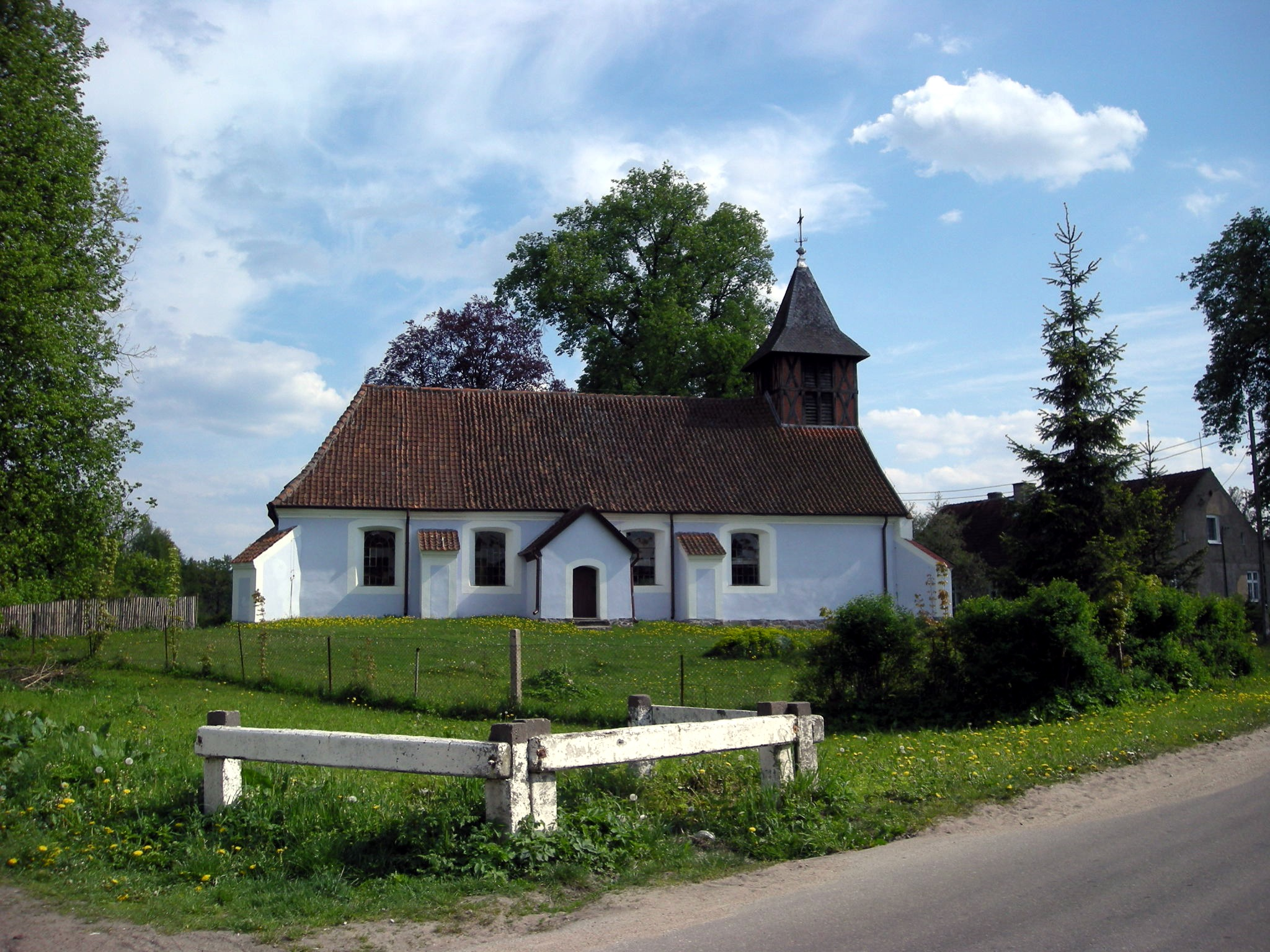 The church in Rańsk, Poland.